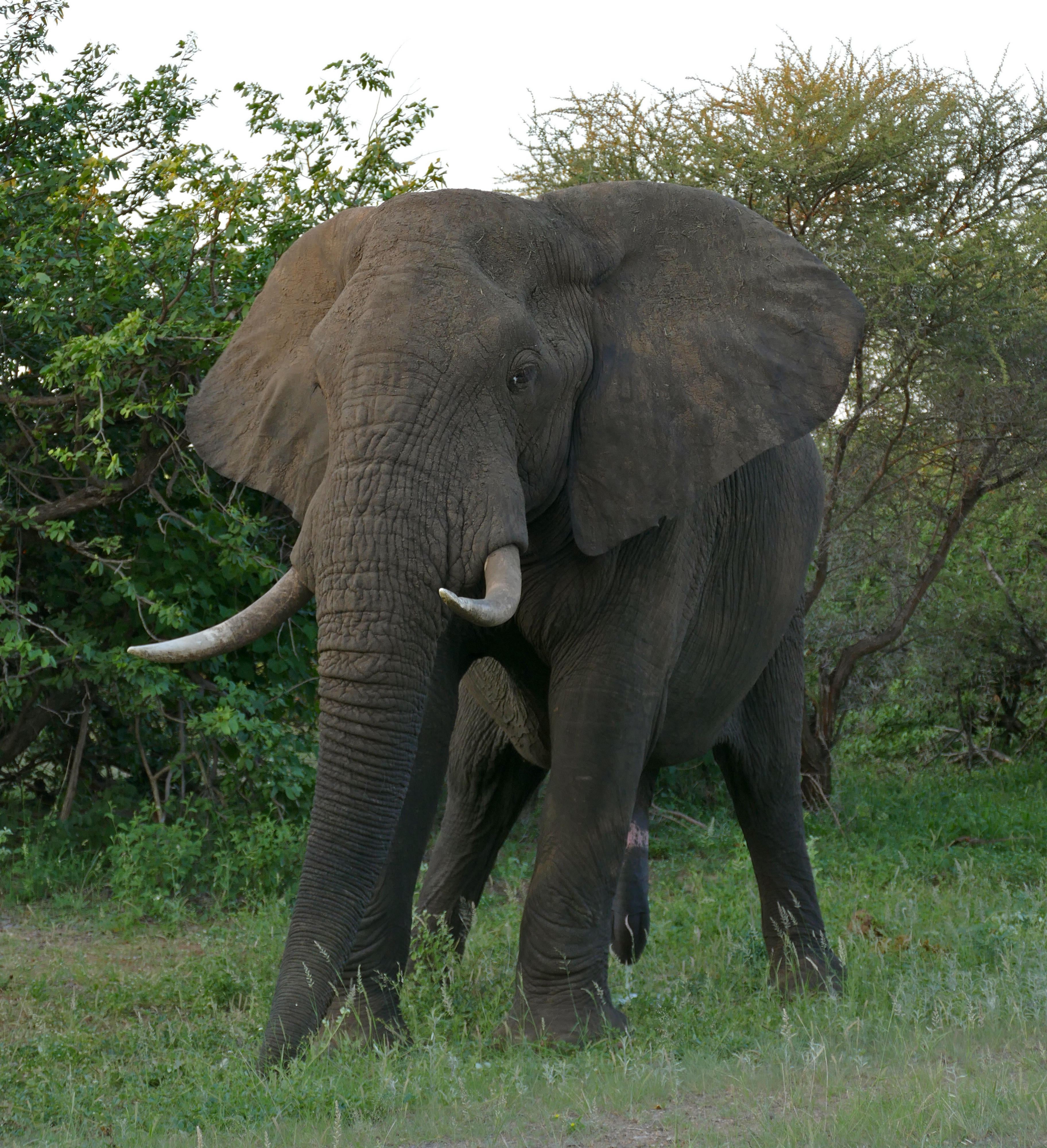 H1-6 Road North of Letaba, Kruger NP, SOUTH AFRICA